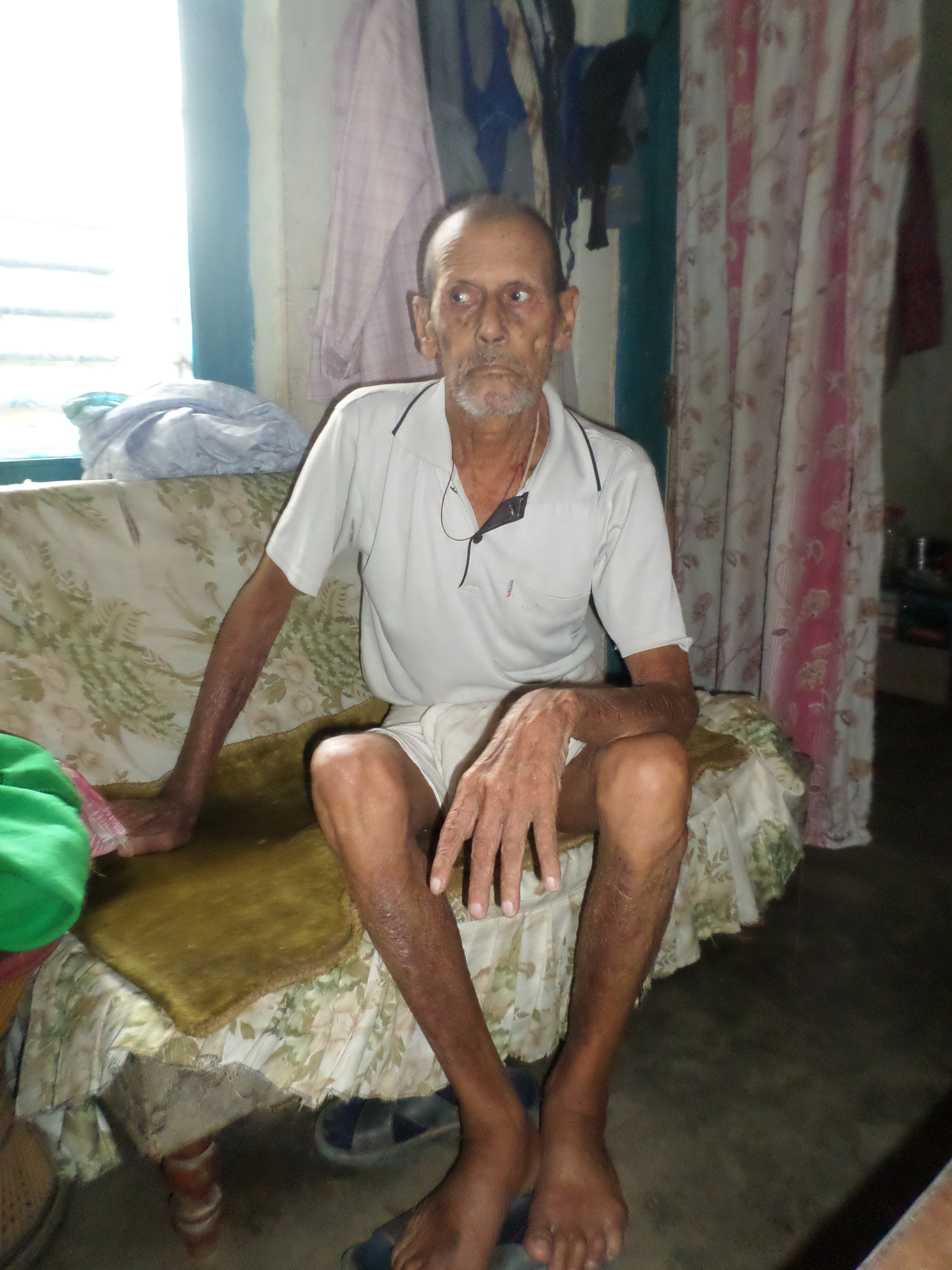 भेडीखर्के साइला